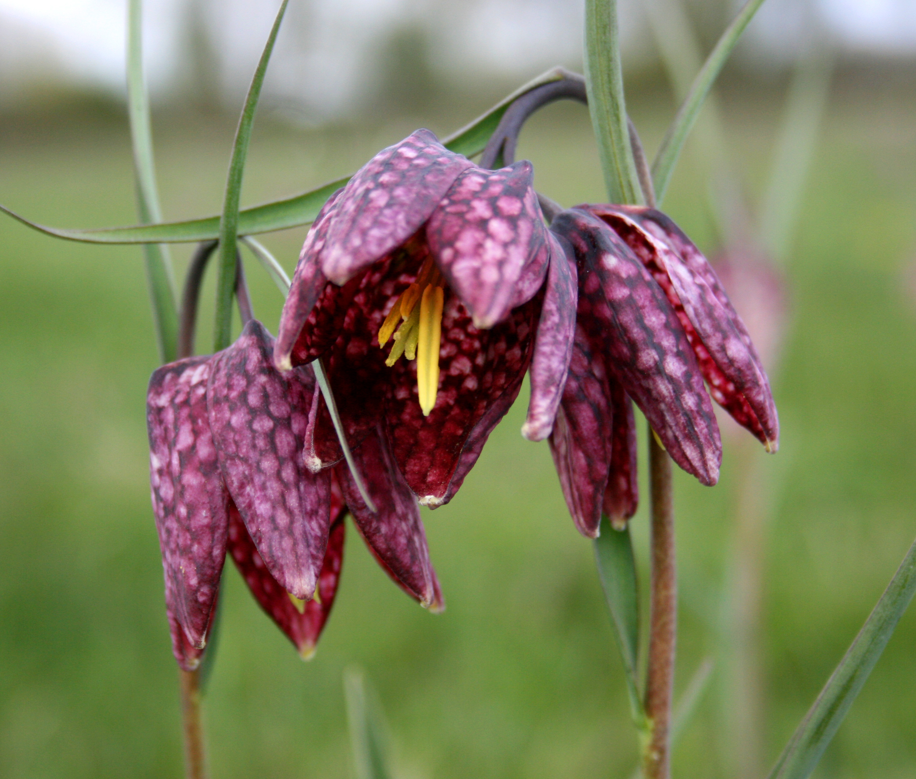 The Snakes Head Fritillary